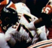 Chicago Bears' left tackle Jimbo Covert pictured in a offensive play against the New England Patriots in Super Bowl XX.